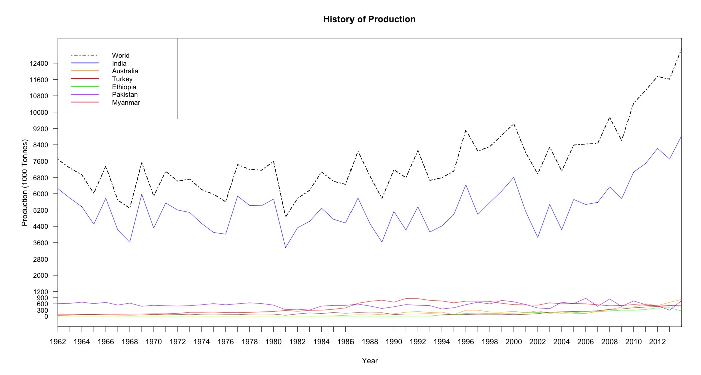 Graphics of the World Chickpea Production since 1961. Data collected from